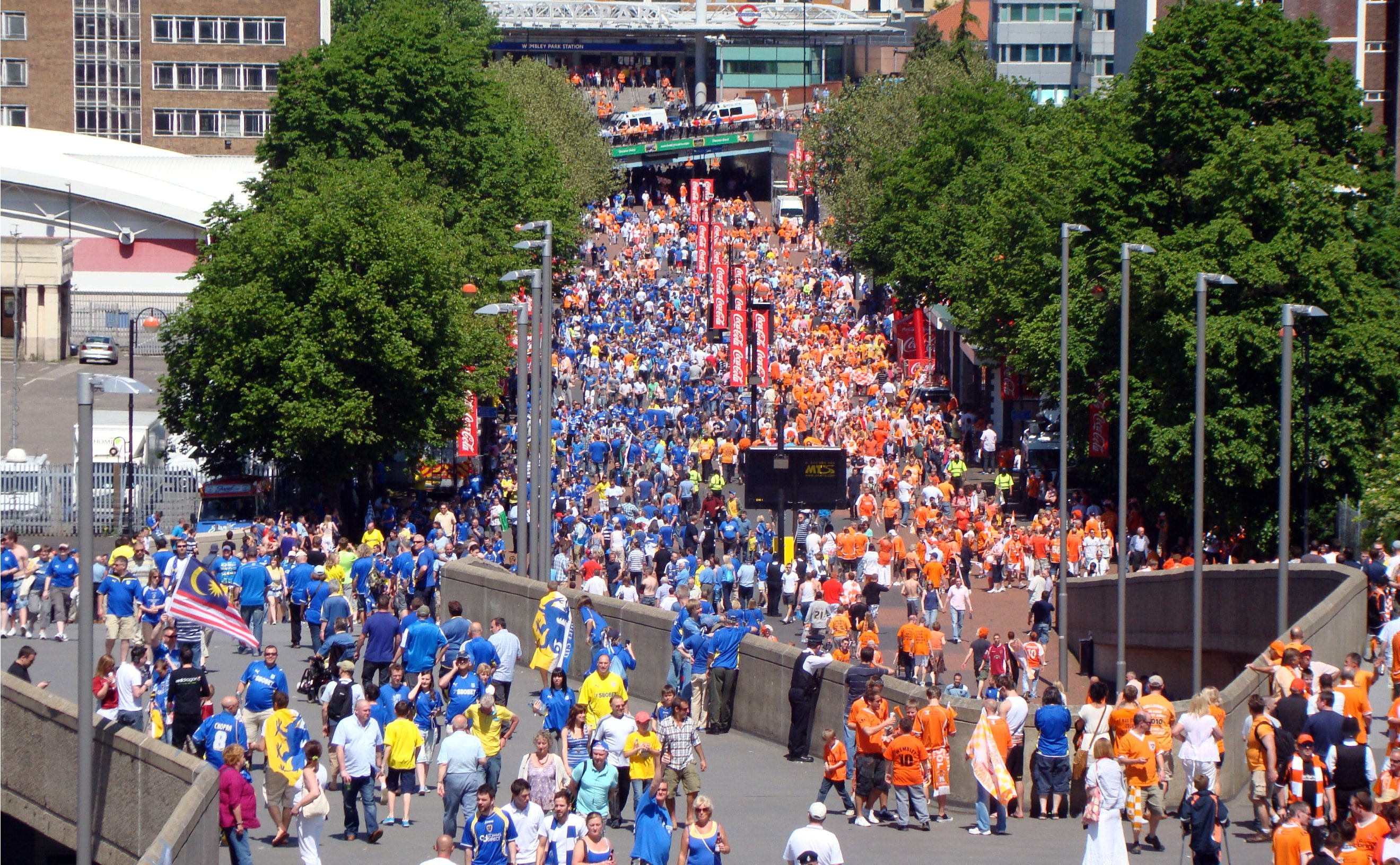 22/05/10 Cardiff V Blackpool, Championship Final, Wembley, England